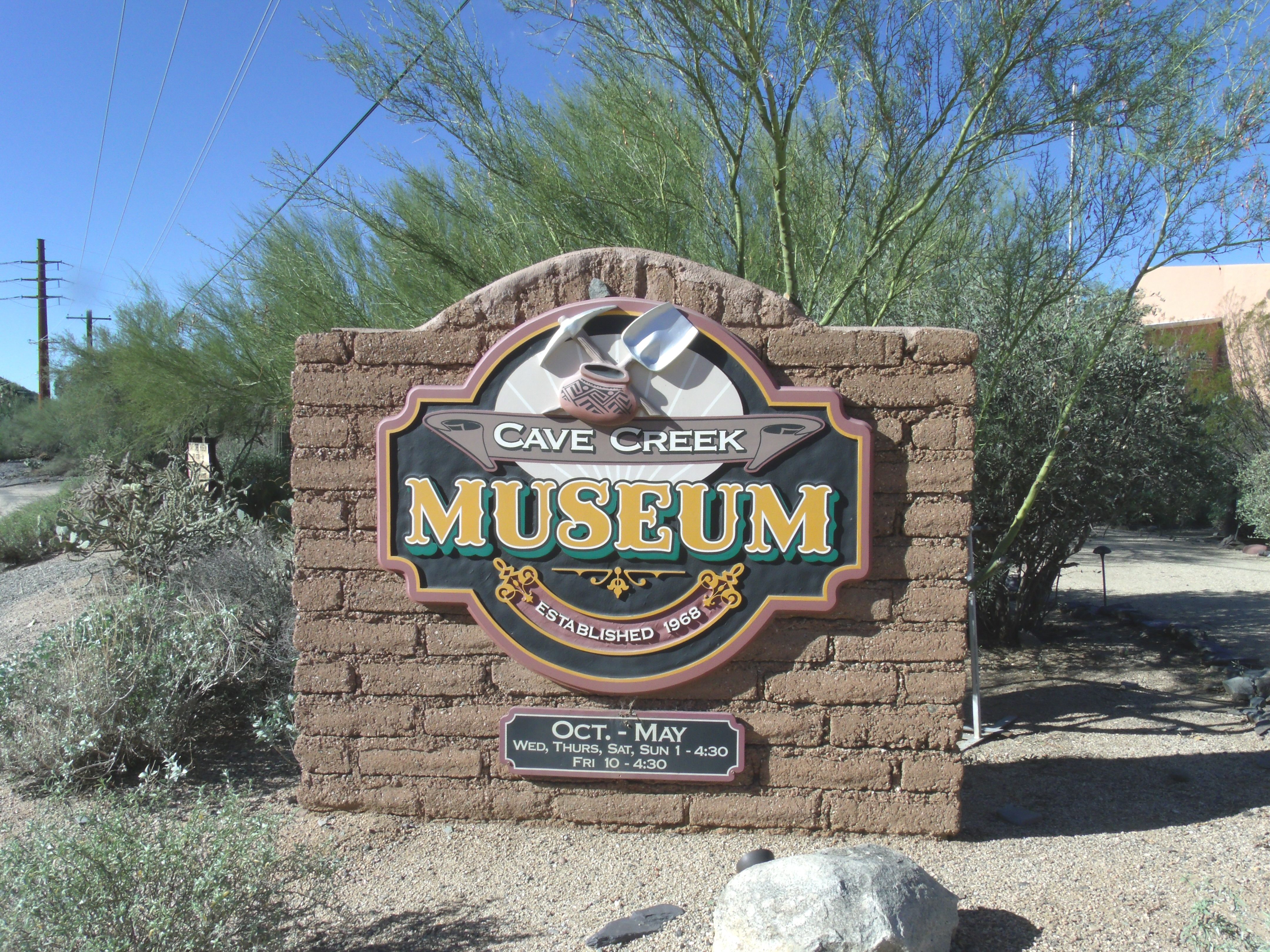 Cave Creek Museum Entrance Marker at 6140 E. Skyline Dr. in Cave Creek Arizona.